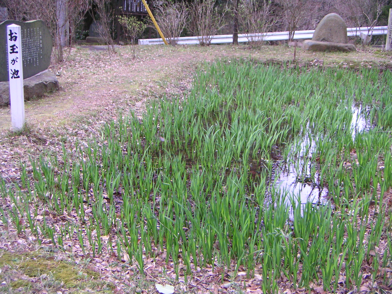 Otamagaike at Kururi Castle in Kimitu,Chiba